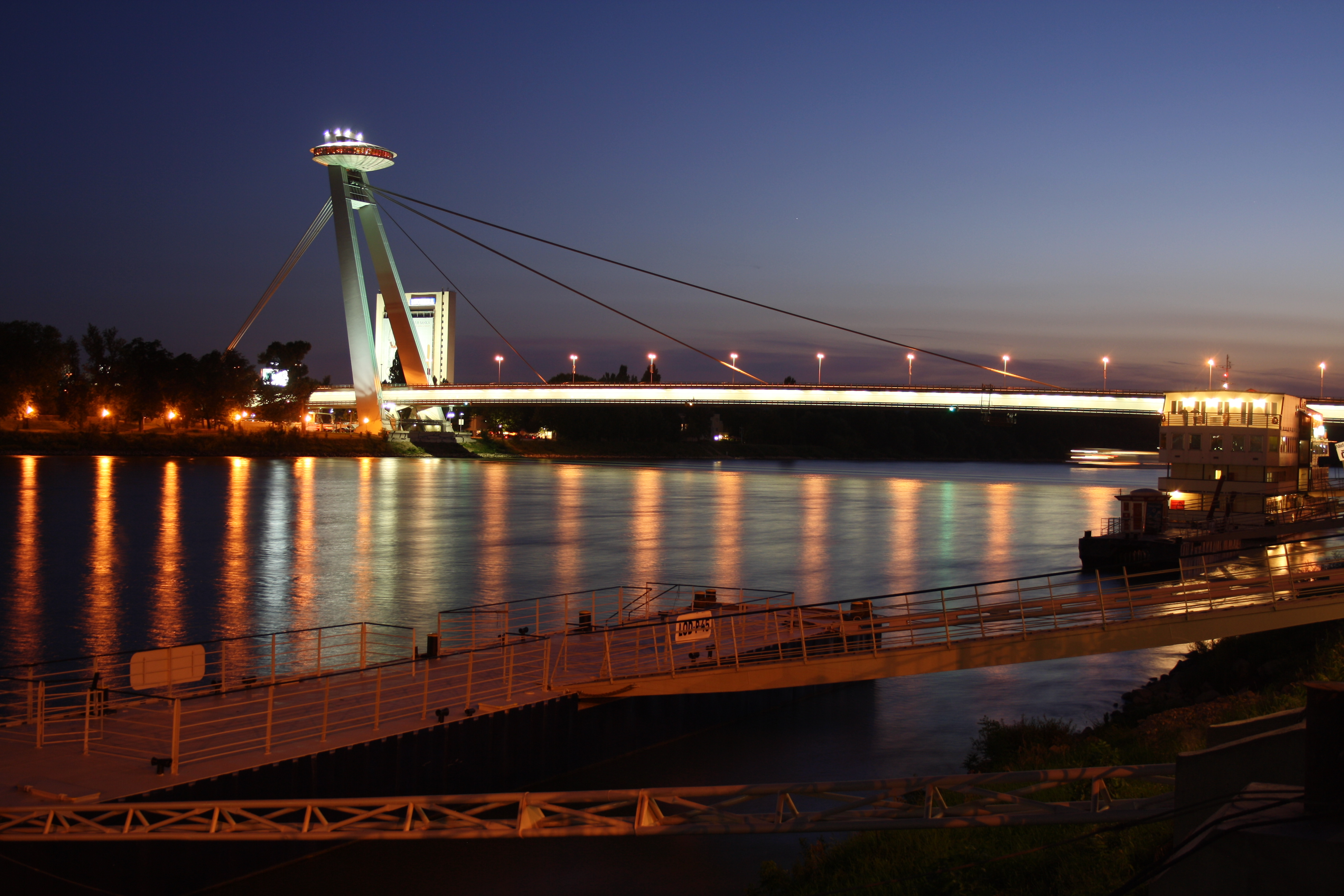 Night shot of port and Nový most in Bratislava.